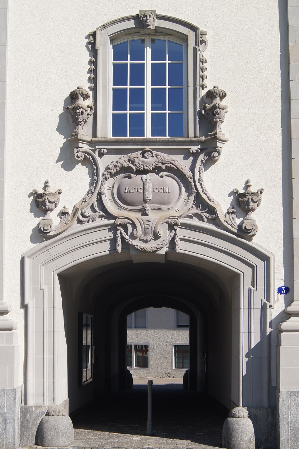 Neue Pfalz - seat of the cantonal governement in St. Gall, baroque portal